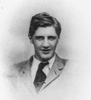 Edward William Horner (1888-1917), in a photograph published following his death in the First World War.